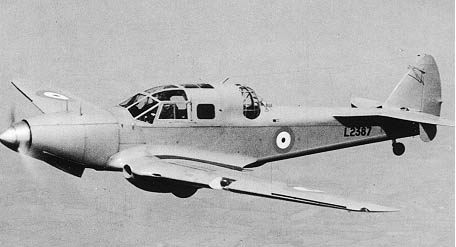 Image originally found on